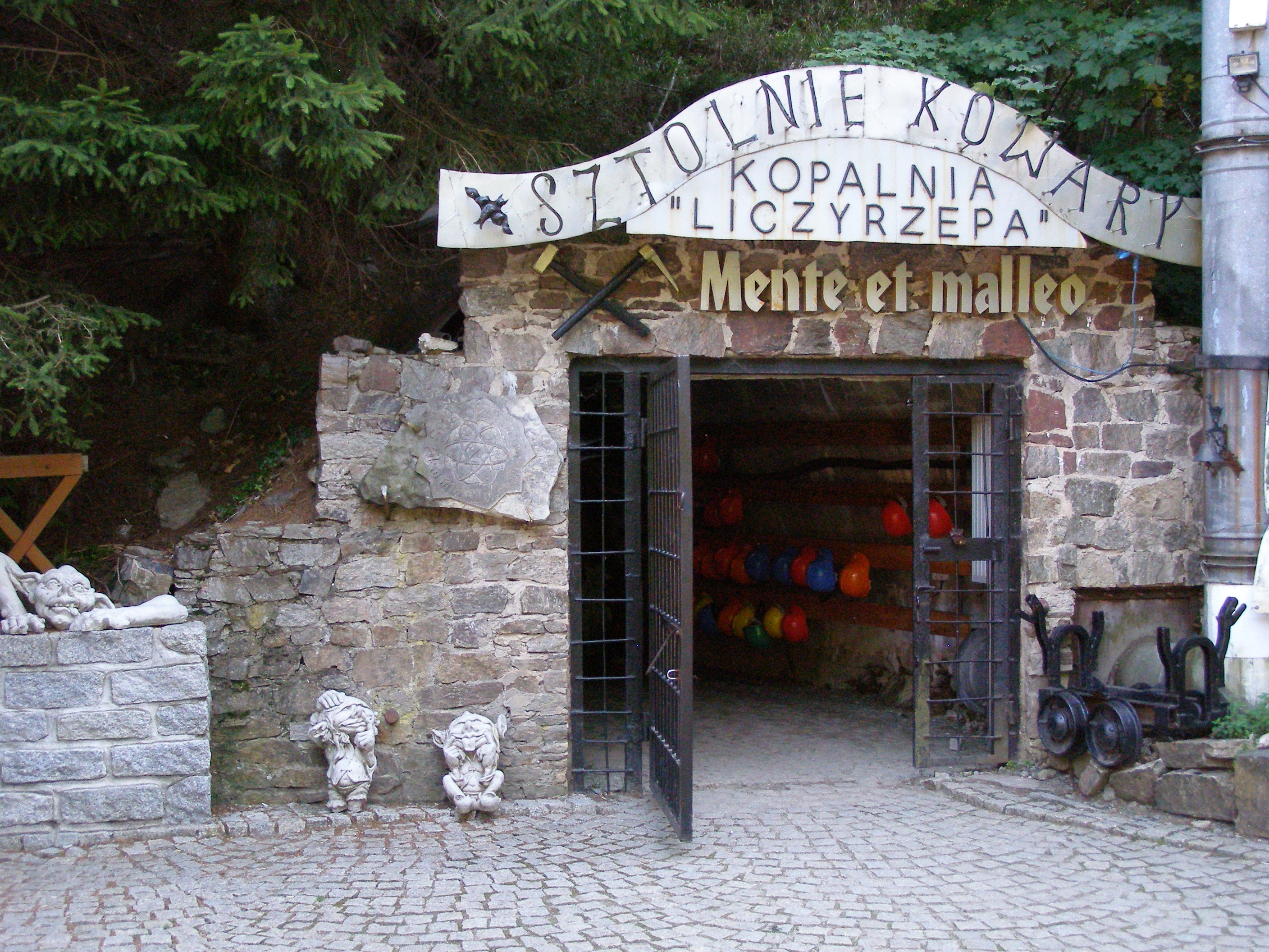 Kowary - Liczyrzepa mine